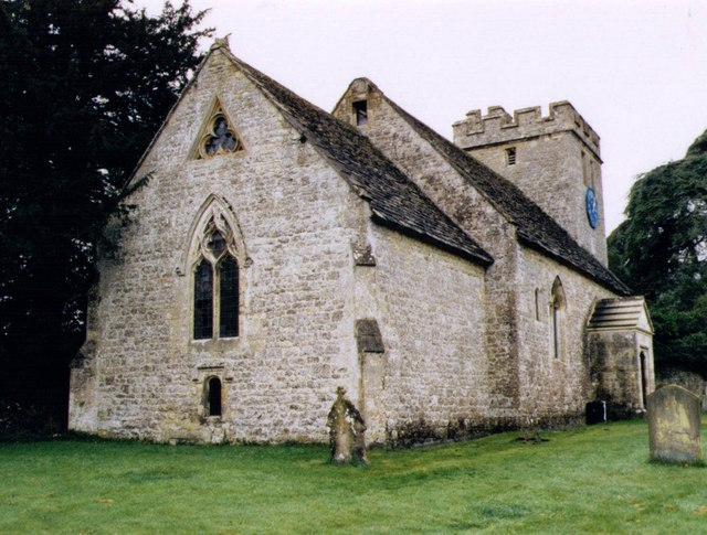 Church of England parish church of All Saints, Wytham, Oxfordshire (formerly Berkshire): view from the northeast